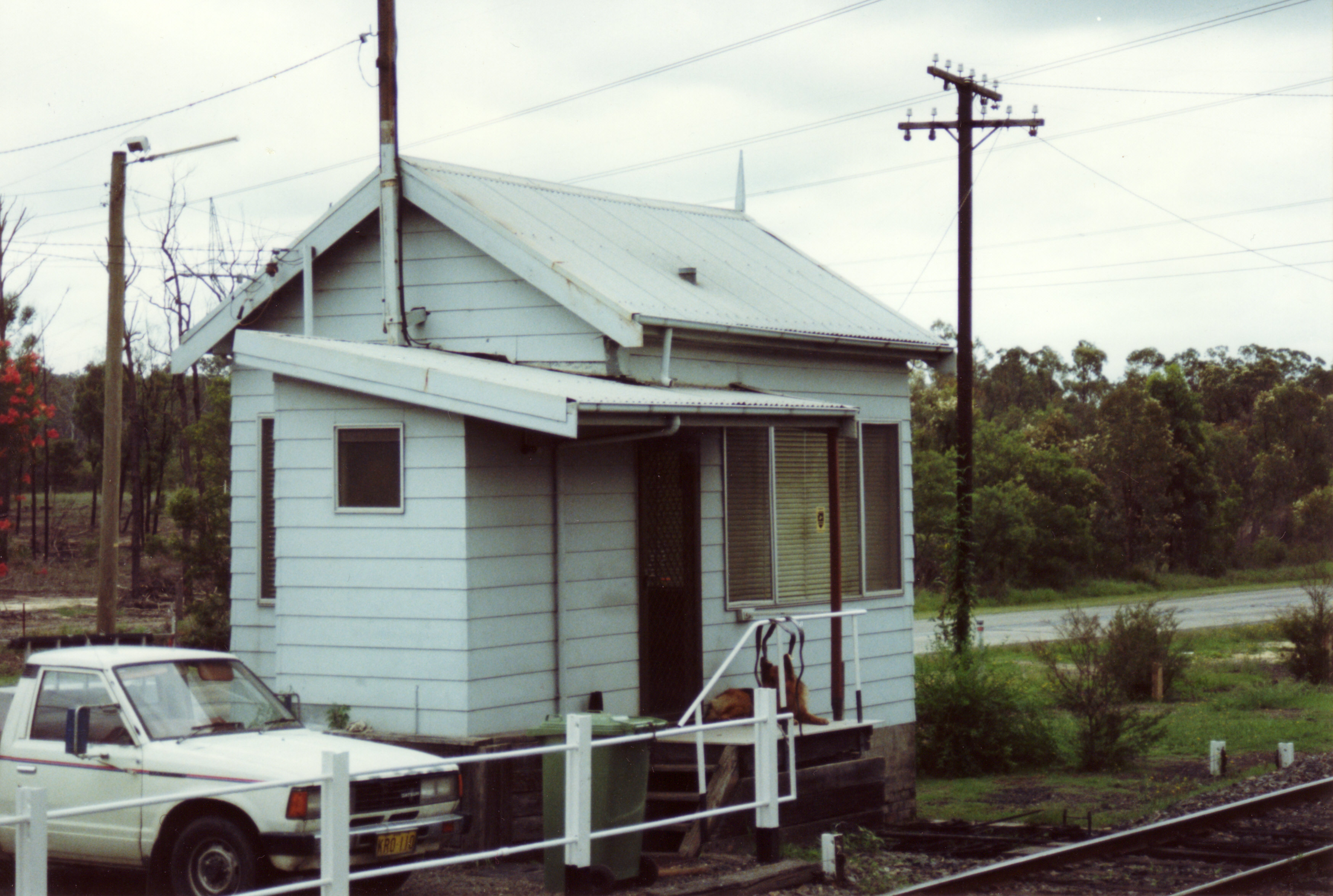 South Maitland Railways Neath Signal box when still in use.